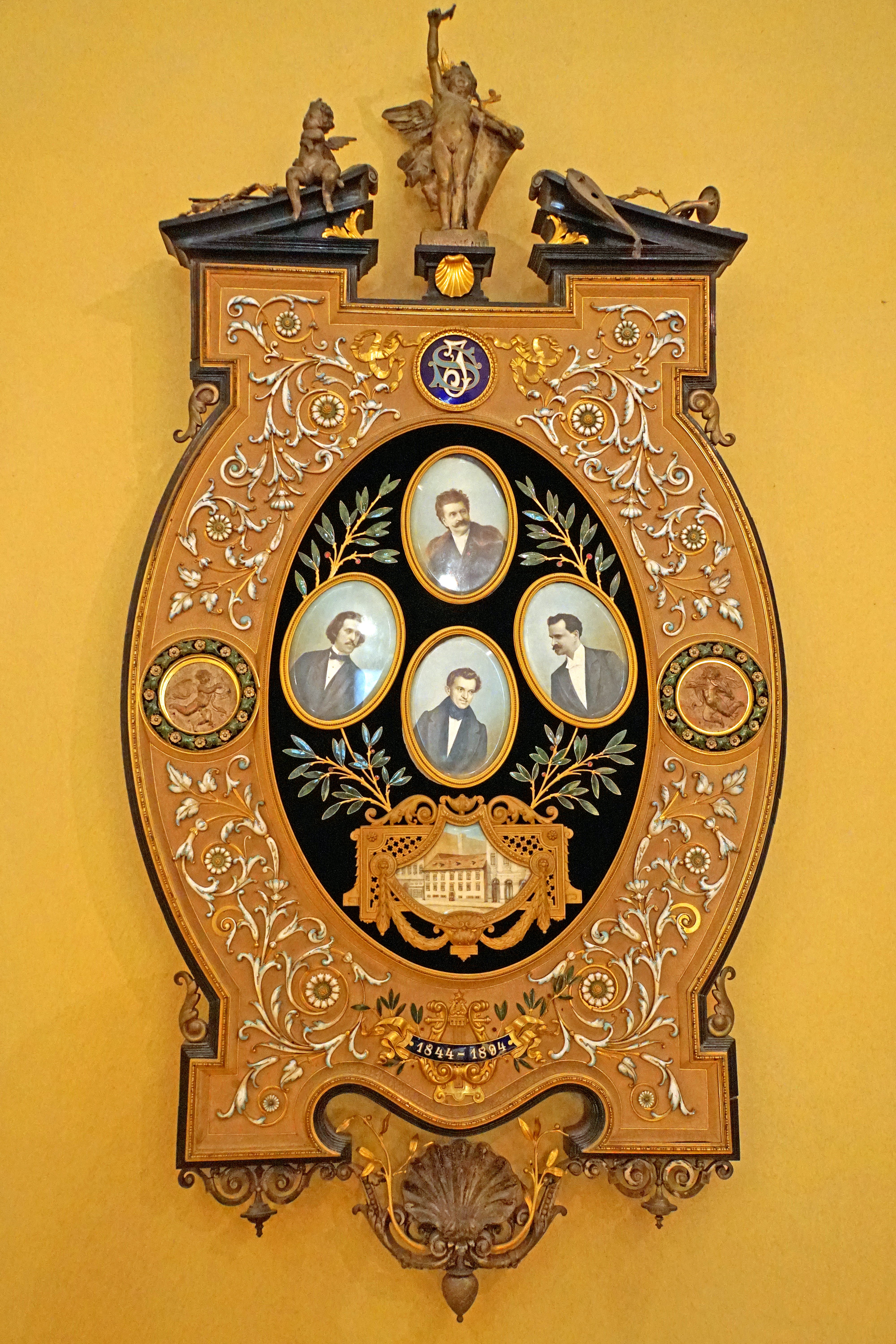 The Strauss-Dynasty - the males of the family, 2 brothers and father. Waltz and operetta composer Johann Strauss Jr. Lived here. Johann Strauss II (October 25, 1825 – June 3, 1899), also known as Johann Strauss Jr., was an Austrian composer of light music, particularly dance music and operettas. He composed over 500 waltzes, polkas, quadrilles, and other types of dance music, as well as several operettas and a ballet. In his lifetime, he was known as "The Waltz King", and was largely then responsible for the popularity of the waltz in Vienna during the 19th century. In 1867 in this apartment, Johann Strauss composed the world-famous waltz "The Blue Danube", Austria's "unofficial national anthem"! Strauss lived here for seven years. His own instruments, furniture and paintings illustrate Strauss's work as a composer, musician and conductor, but the whole presentation brings Strauss close to us in private as well, a man who married three times, an enthusiast at billiards and cards, and a caricaturist.